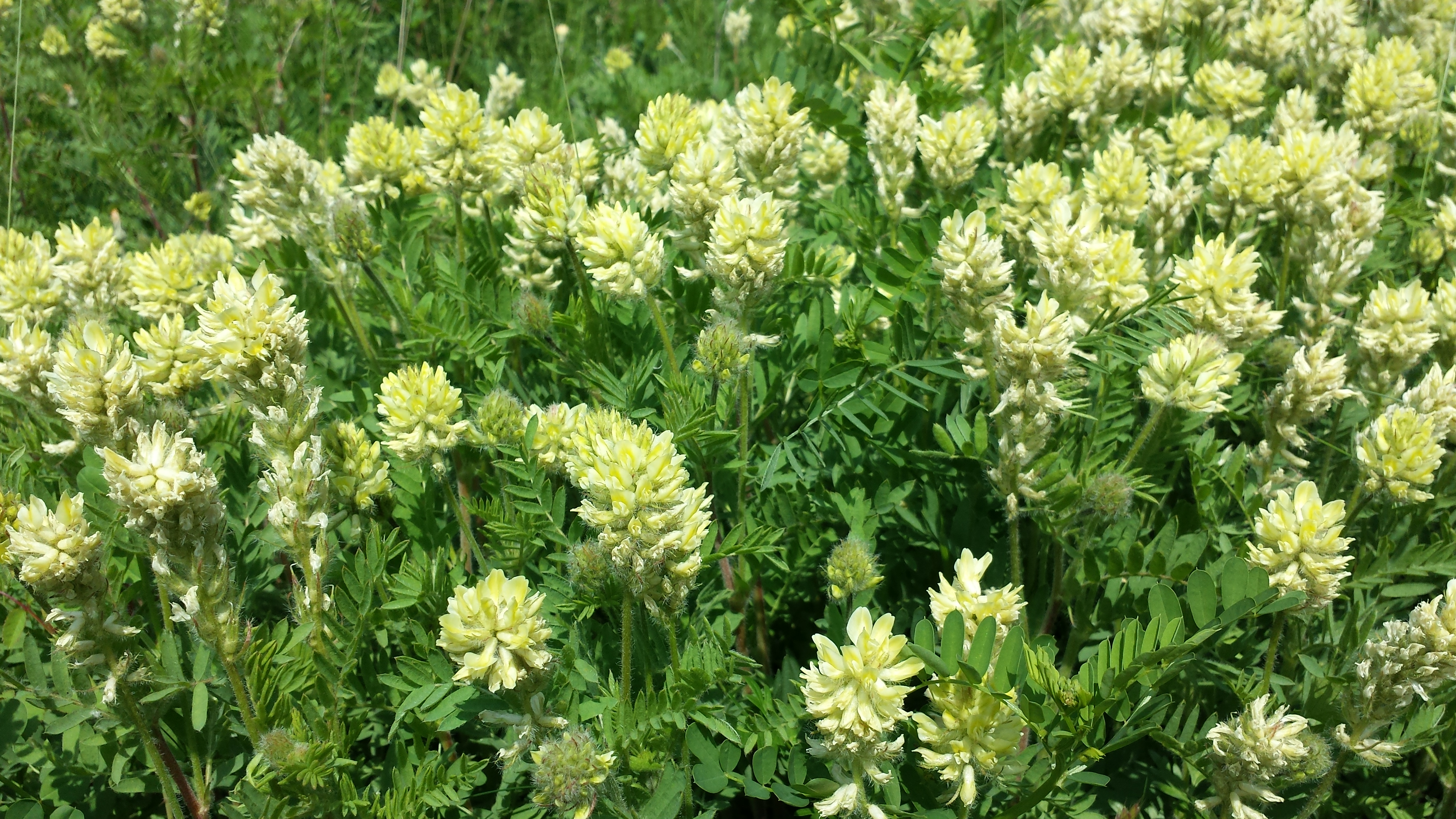 Taxon: Oxytropis pilosa Location: Zeiserlberg near Ottenthal, district Mistelbach, Lower Austria Habitat: dry grassland Identified according to: Fischer et al. EfÖLS 2008